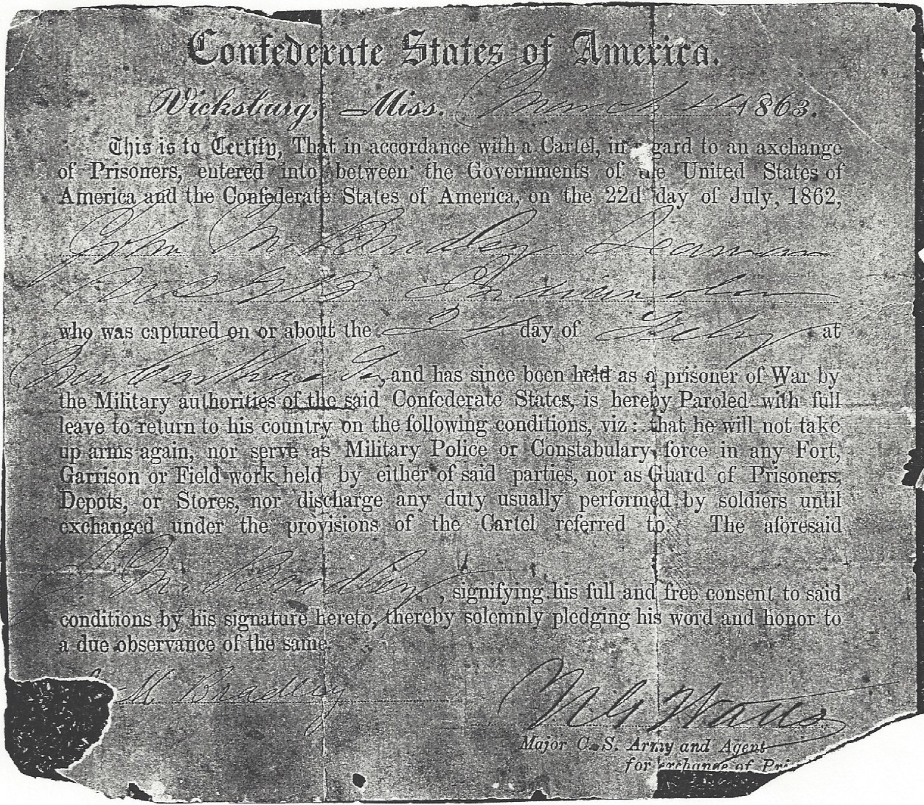 Seaman John M. Bradley released